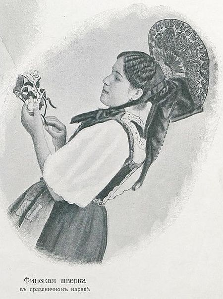 Swedish girl in festive attire (Finland)